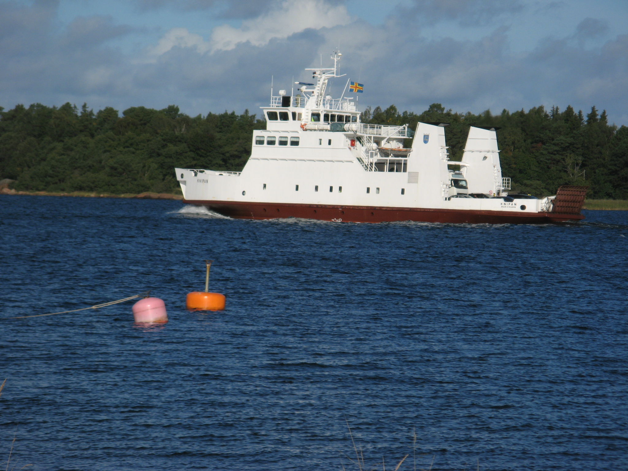 m/s Knipan leaving Degerby, Föglö.